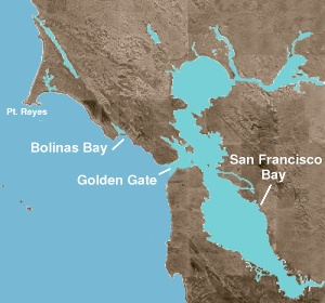 Bolinas Bay © 2004 Matthew Trump